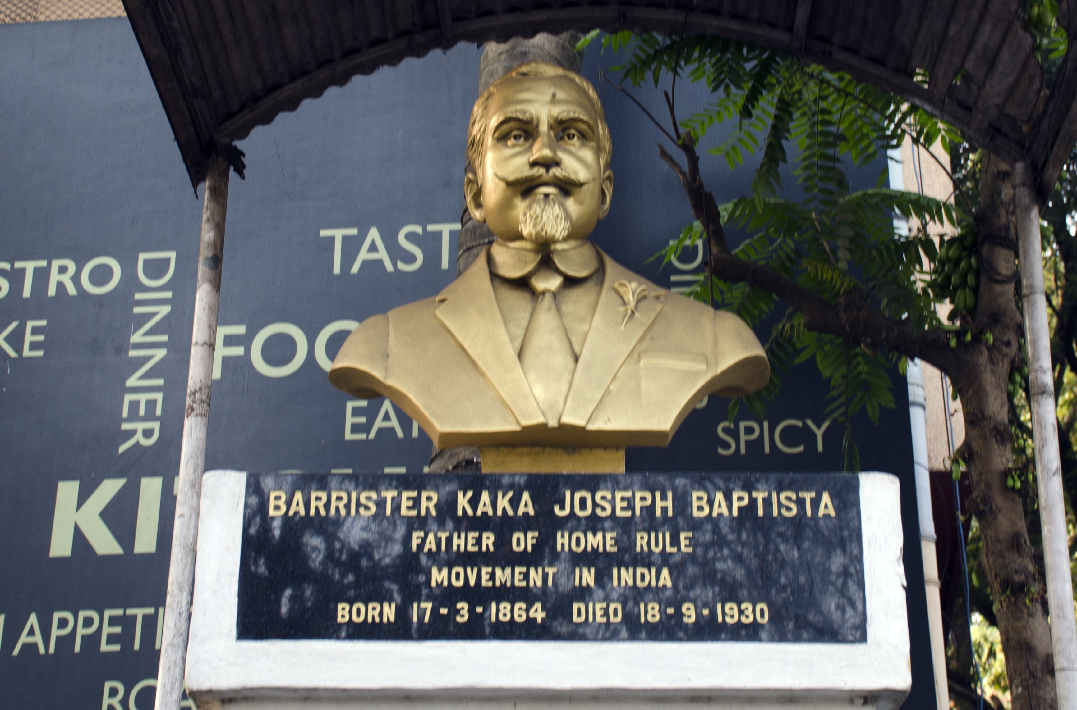 Joseph Baptista Statue, Bhutbangla, Uttan, Mumbai